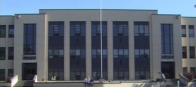 Dickinson High School, ND. 2004 DHS was located in this building at 4th St West in 1964, when I graduated the Class'64. Now it is A.L. Hagen Junior High Category:Images of North Dakota Captioned As {}